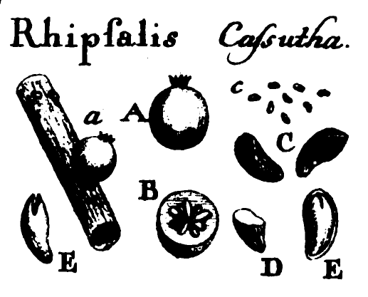 Rhipsalis cassytha